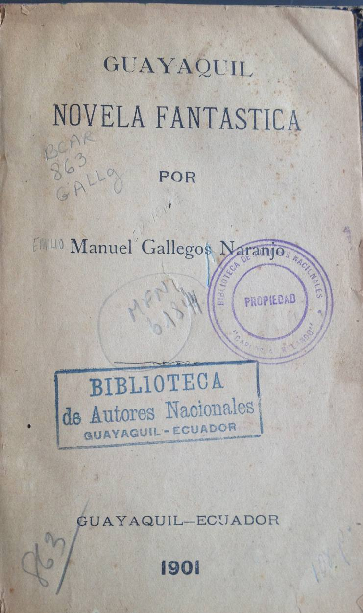 Cover of the early sci-fi novel "Guayaquil. Novela Fantástica" (1901) by Manuel Gallegos Naranjo